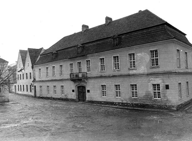 Kamyanets Podilsky seminary